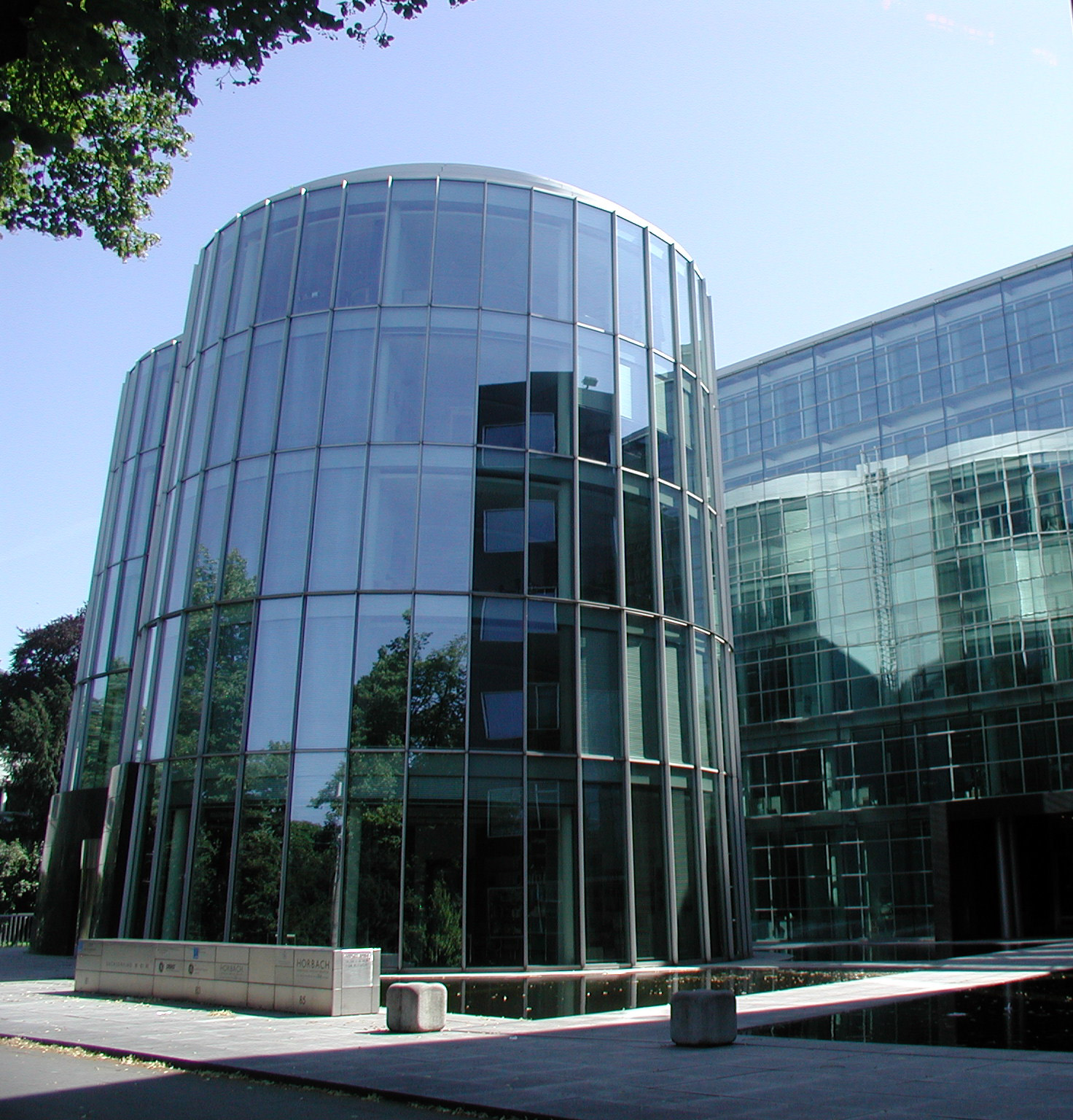 Cologne Sachsenring, "Horbach" house